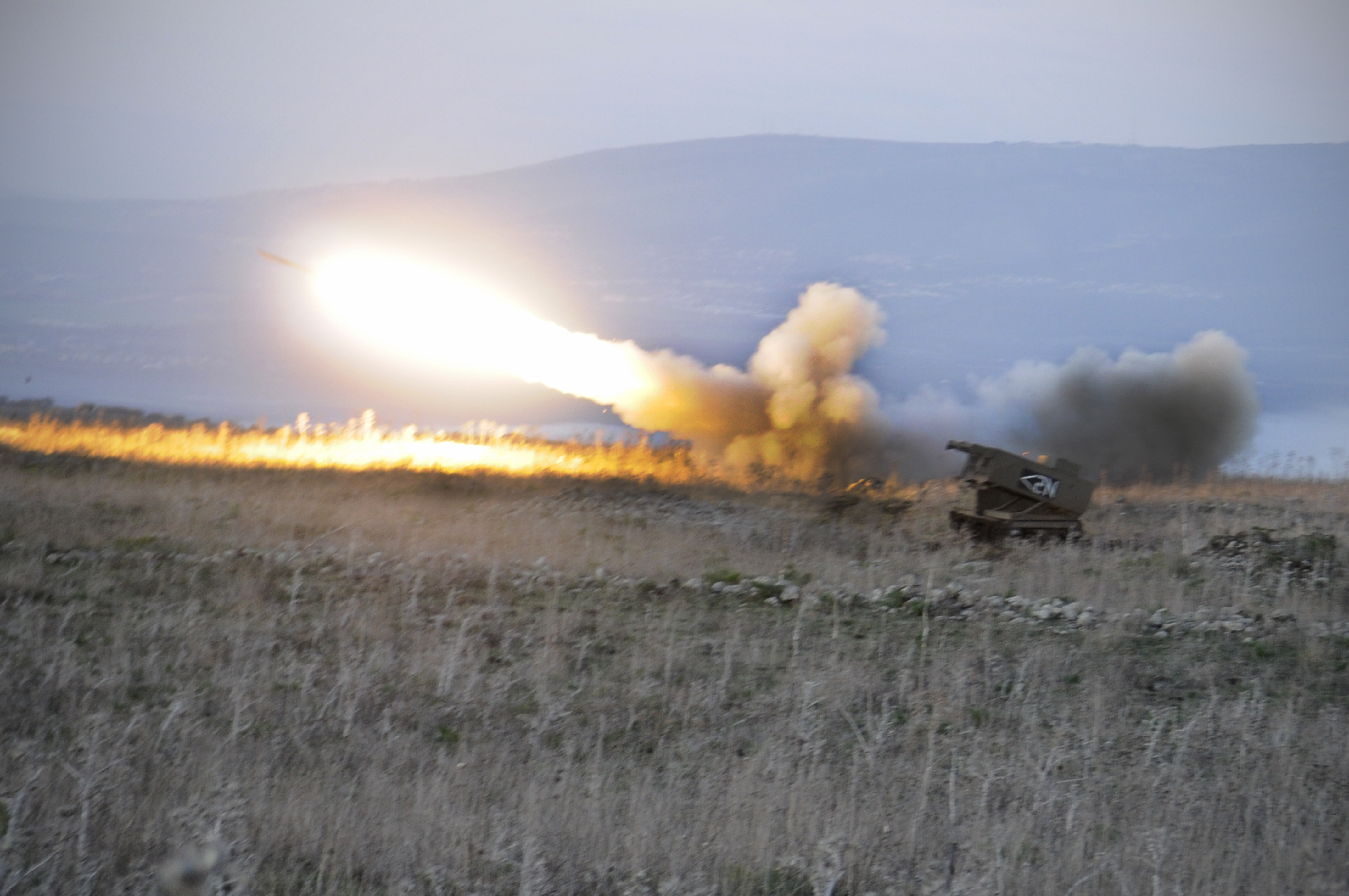 January 10, 2012 The MLRS (Multiple Launch Rocket System) launchers have a primary role in artillery operations. The MLRS, stationed in the north, is a modern, fin-stabilized, surface-to-surface artillery rocket packed in a launch pod. Featured as Photo of the Day on February 16, 2012 The Israel Defense Forces Facebook The Israel Defense Forces blog Follow us on Twitter